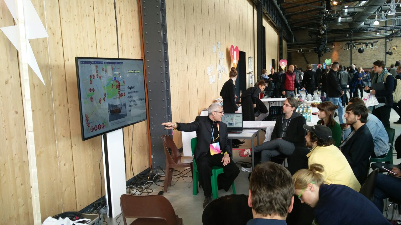 Costantino Ciervo, lightning talk about the participatory art project „SendProtest“ at re:publica 17, Berlin 2017, photo: Erik Zocher